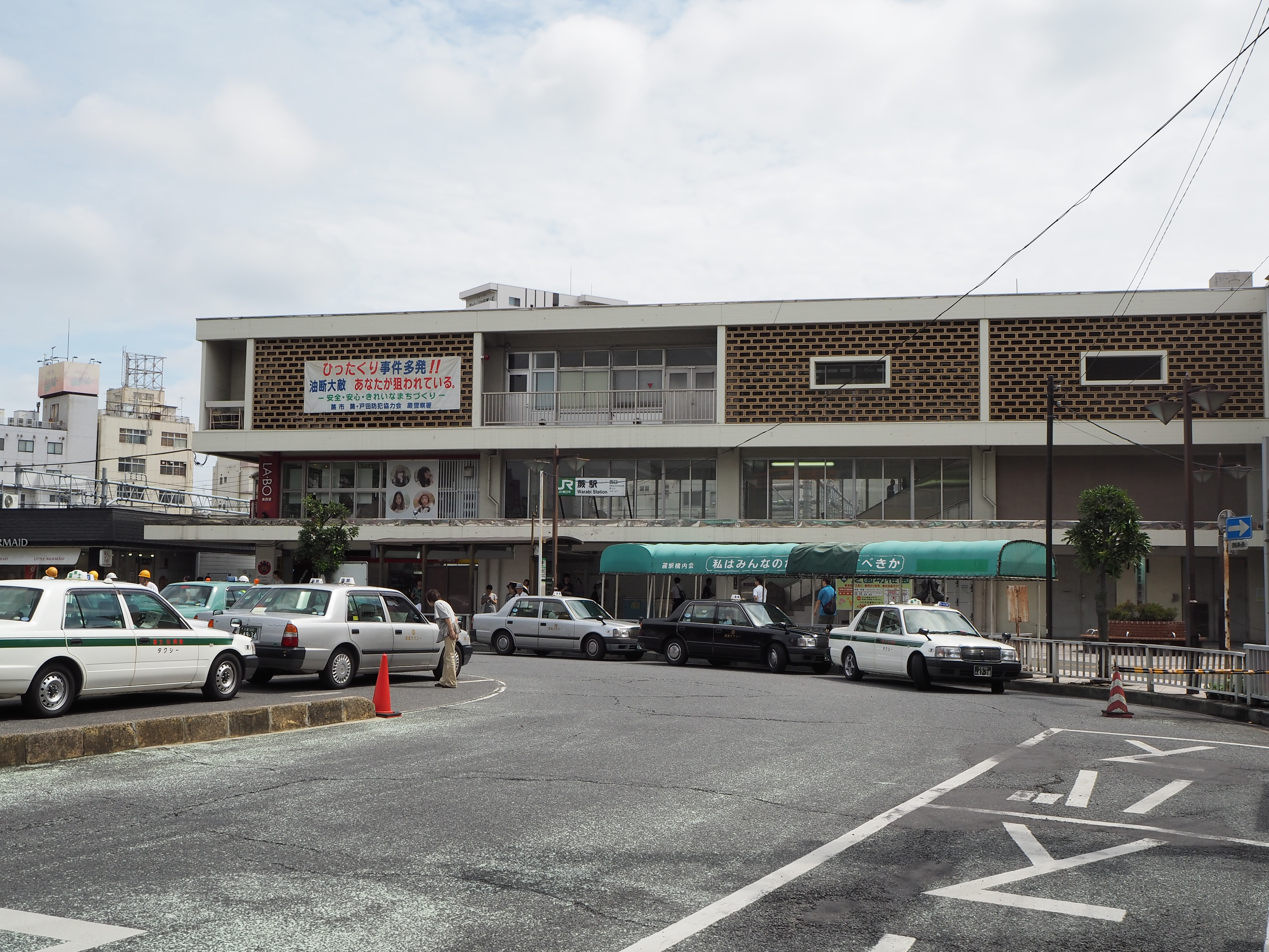 West entrance of Warabi Station